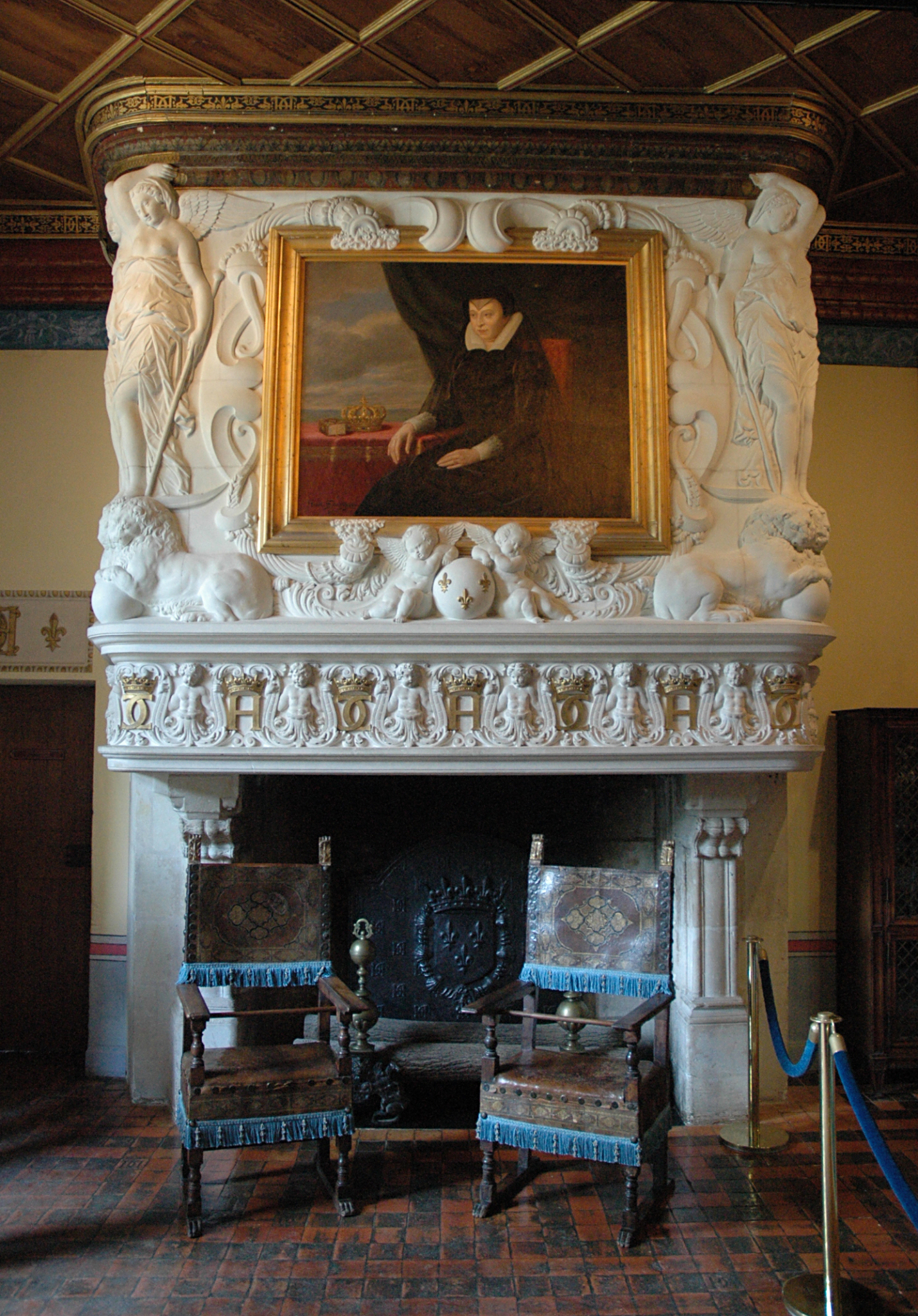 Fireplace in Diane de Poitiers' room of the château de Chenonceau